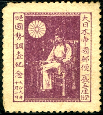 日本で1920年9月25日に発行された1銭5厘記念切手。第一回国勢調査。First national census of the Empire of Japan